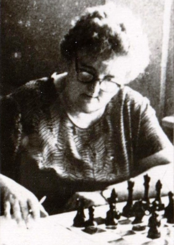 Official document of the ICCF (International Correspondence Chess Federation) concerning the finals of the first Correspondence Chess World Championship for Ladies (1968 to 1971).